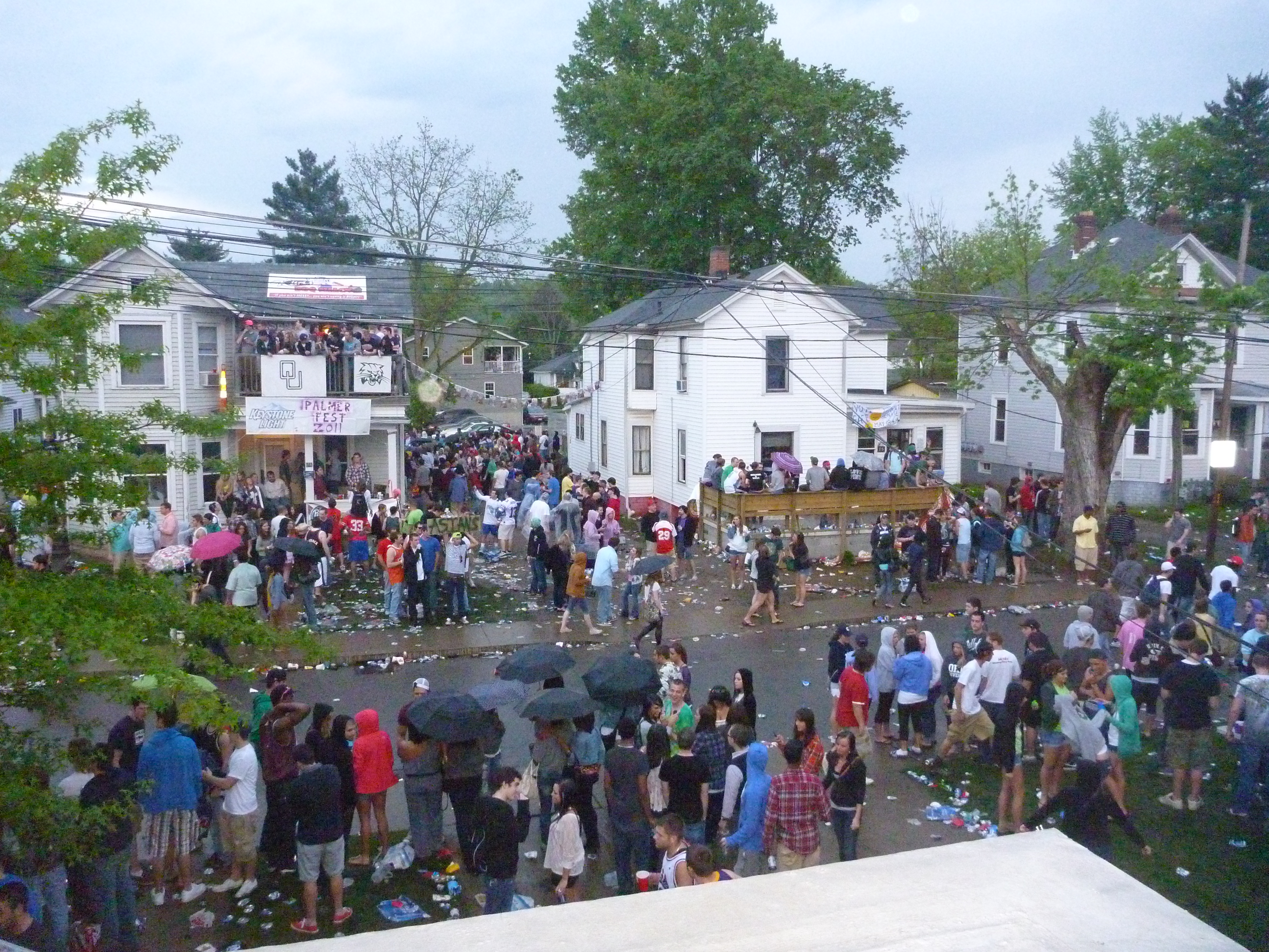 Palmerfest in Athens, Ohio on May 7, 2011, looking east from a second floor window of a house on the street. Rain is falling, though the crowds are not dissipating.